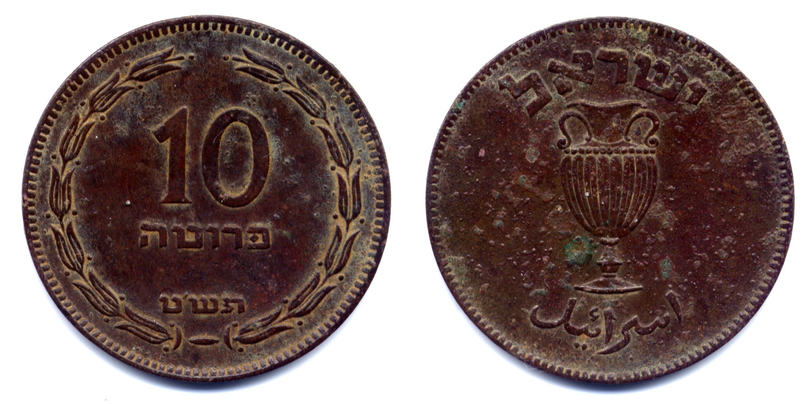 Ten Israeli Pruta, year התש"ט.